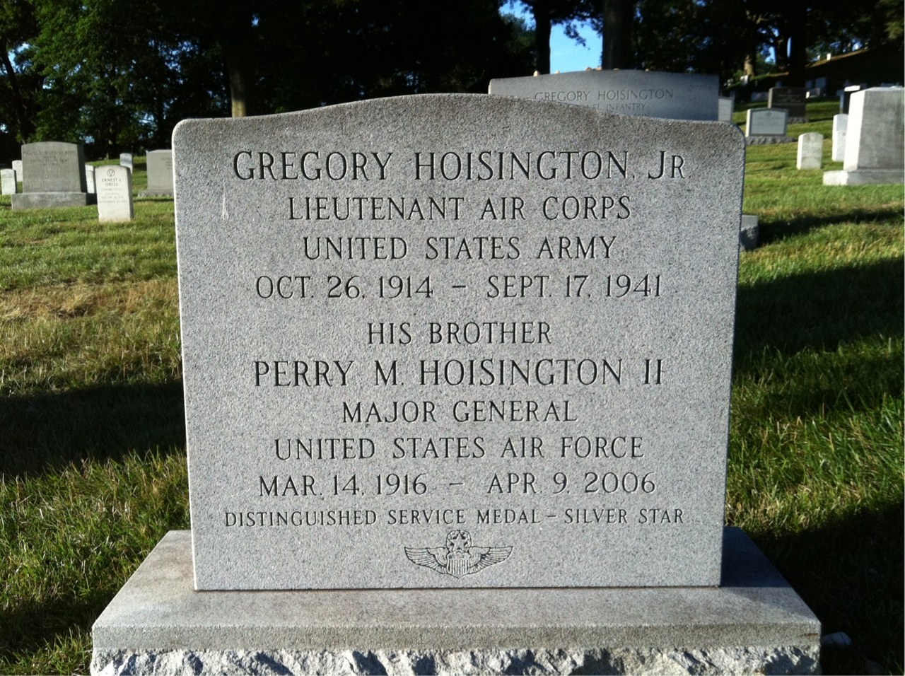 Grave of Perry M. Hoisington II and Gregory Hoisington Jr. at Arlington National Cemetery